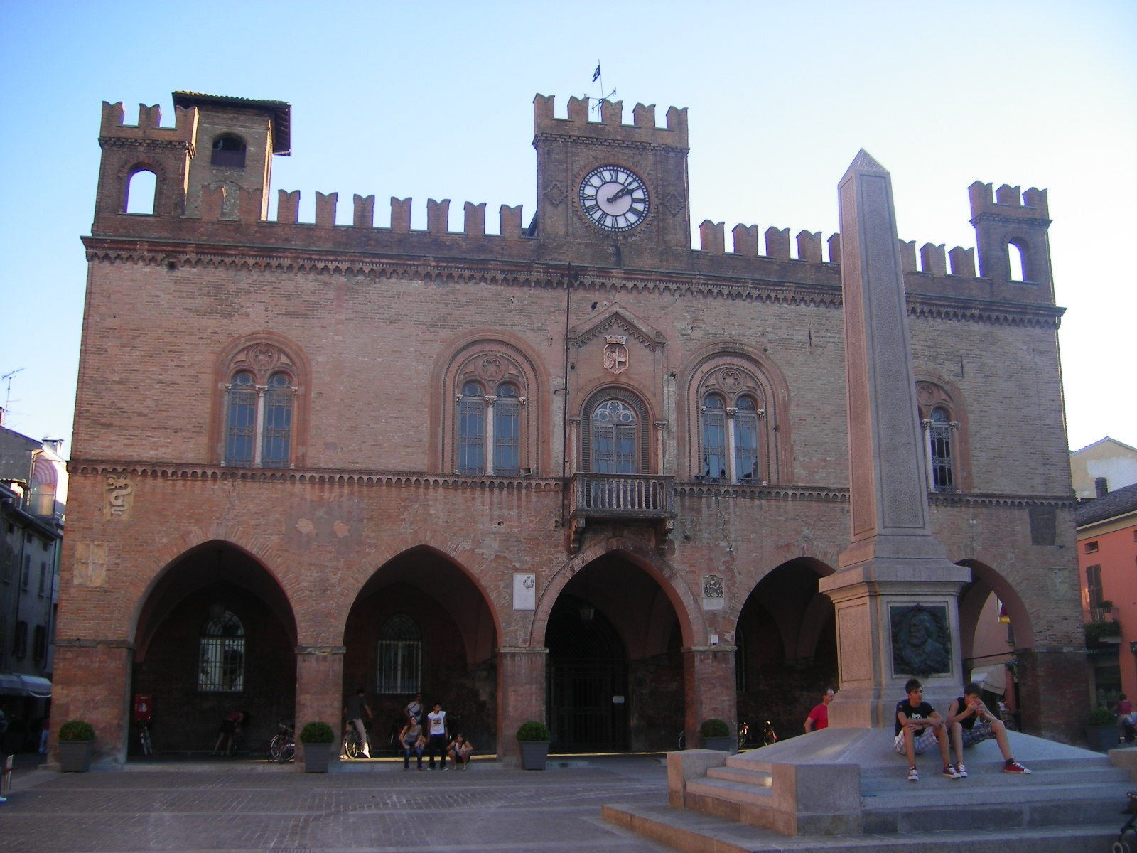 Fidenza - Town Hall